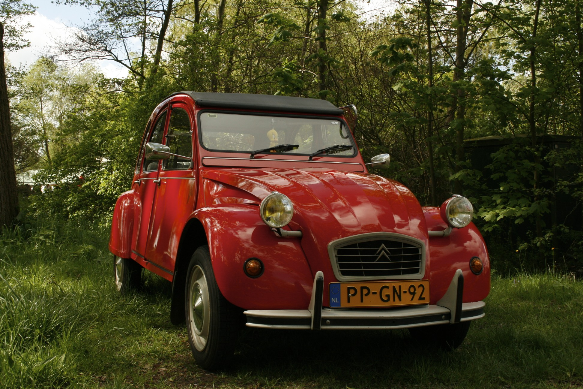 Citroën 2CV6 Spécial 1990 in rouge vallelunga - One of the last built Tinsnails in Mangualde, Portugal.